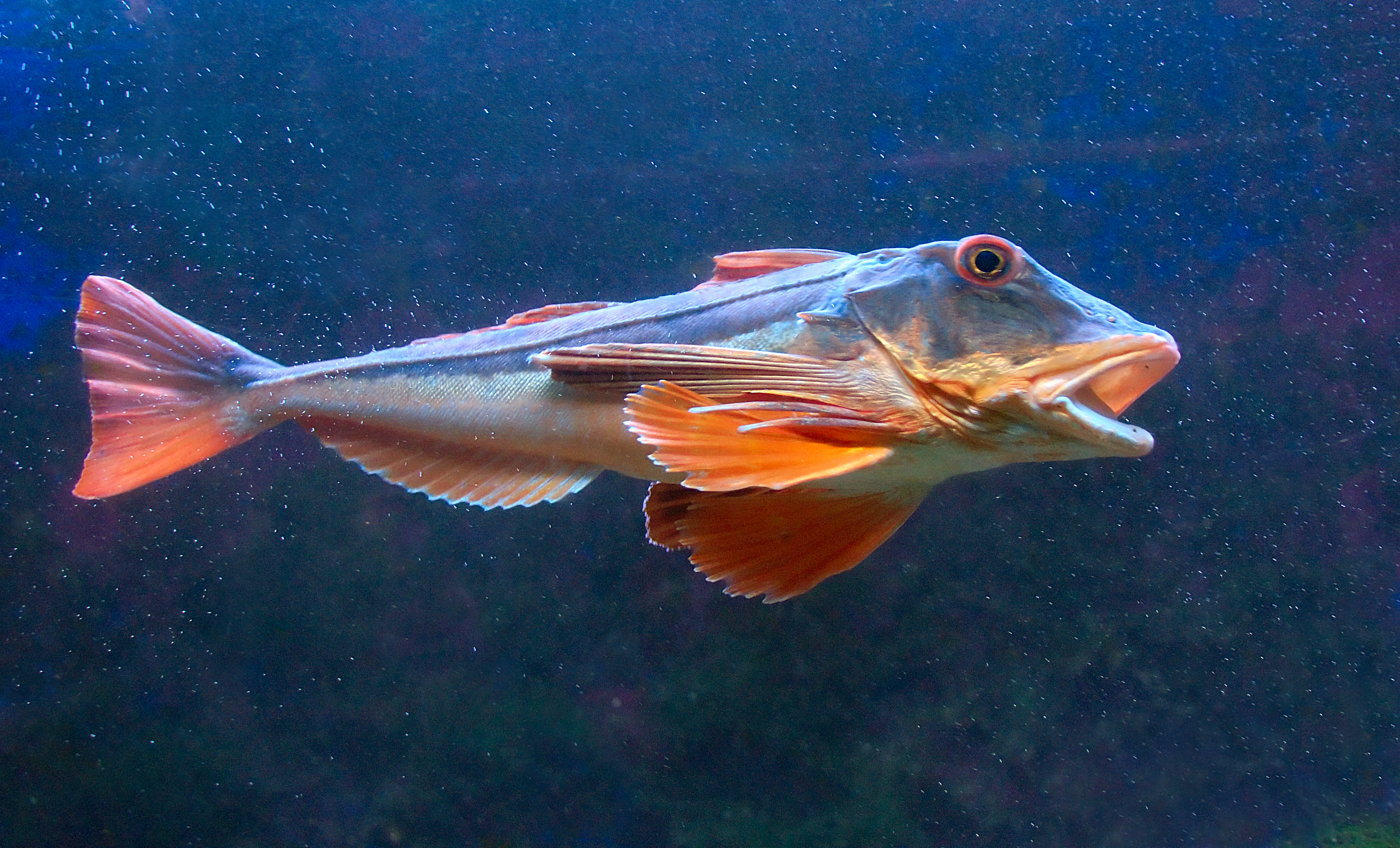 Chelidonichthys lucernus Aquarium museum ARAGO (Banyuls sur mer) France